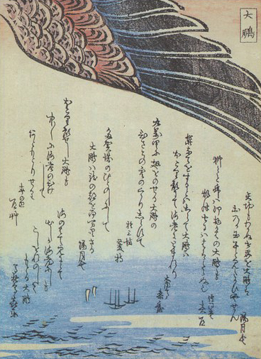 "Dapeng" (大鵬, a mythological bird in China) from the Kyōaka Hyaku-Monogatar (狂歌百物語, Japanese picture)